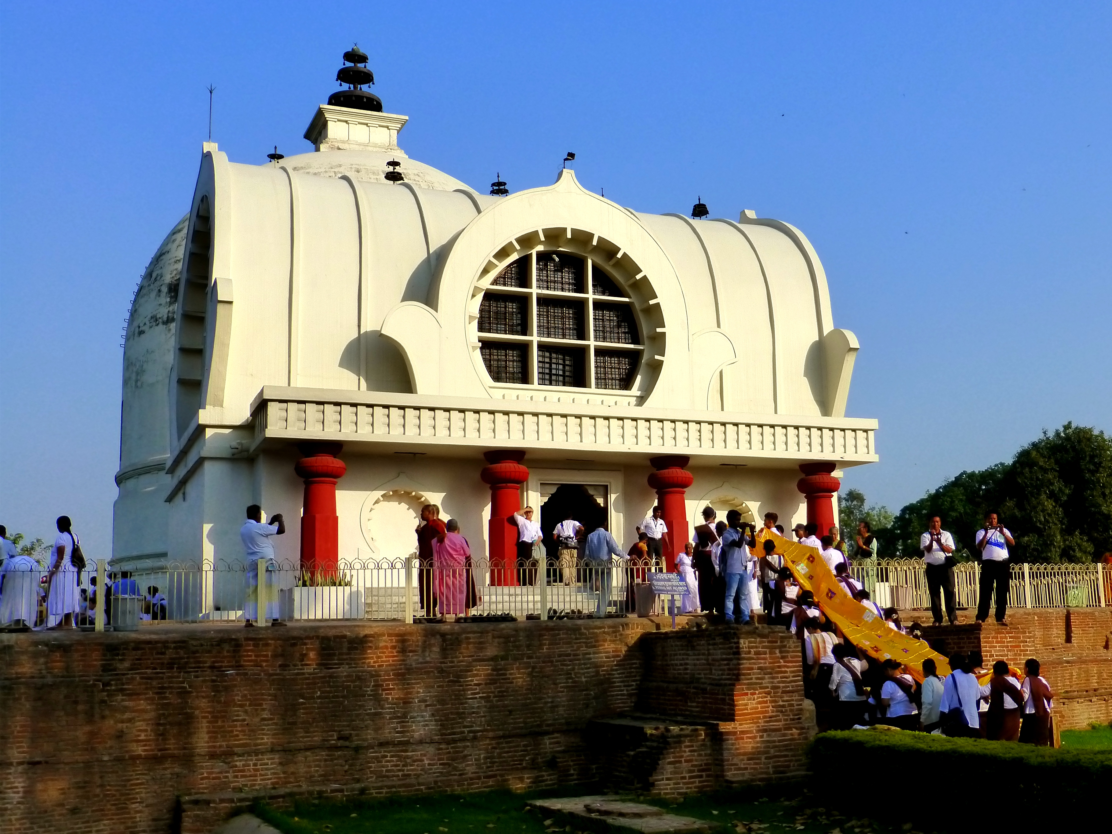 58 Parinirvana Temple from Front, Kusinara. Photograph from Kushinagara in Uttar Pradesh taken by Anandajoti.